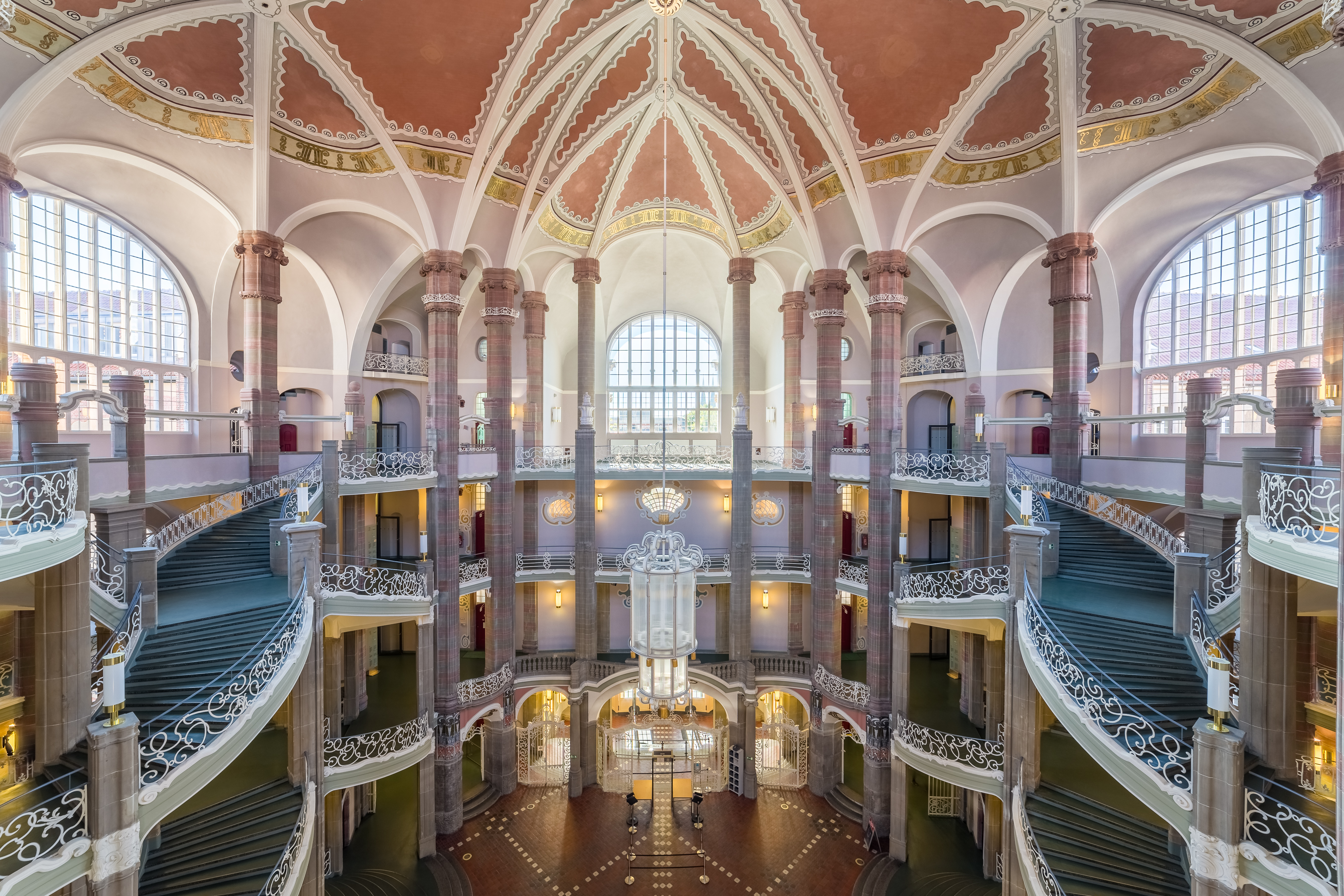 Entrance hall of the regional court of Berlin located in Littenstrasse 12-17 in Berlin-Mitte.This is a photograph of an architectural monument.